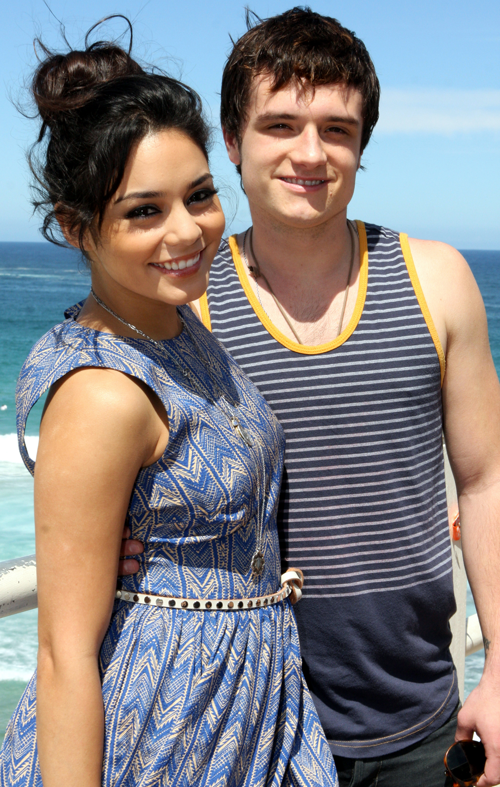 Vanessa Hudgens and Josh Hutcherson Adventure to Bondi Beach 2012.